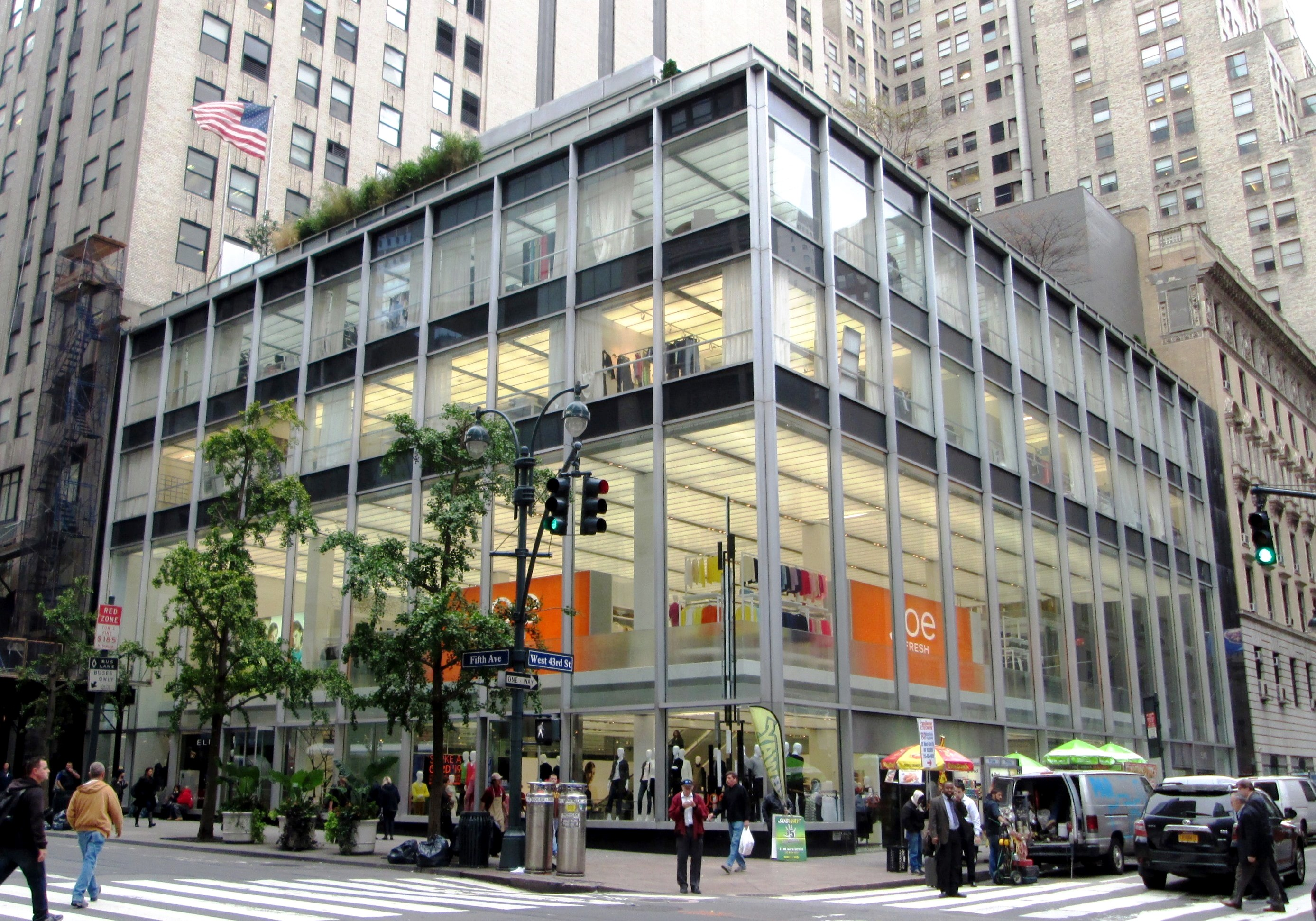 The former Manufacturers Trust Company Building at 510 Fifth Avenue on the corner of West 42rd Street in the Midtown Manhattan neighborhood of Manhattan, New York City, was built in 1954 and was designed by Charles Evans Hughes III and Gordon Bunshaft of Skidmore Owings & Merrill. Considered "the very model of Modernism" in architecture, both the building's exterior and interior have been designated New York City landmarks.